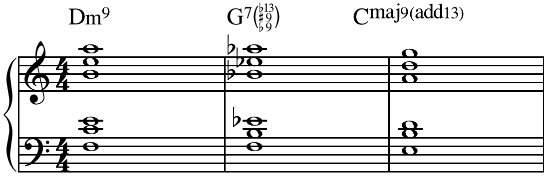 A ii-V-I turnaround, where the chords are made of stacked fourths (quartal).